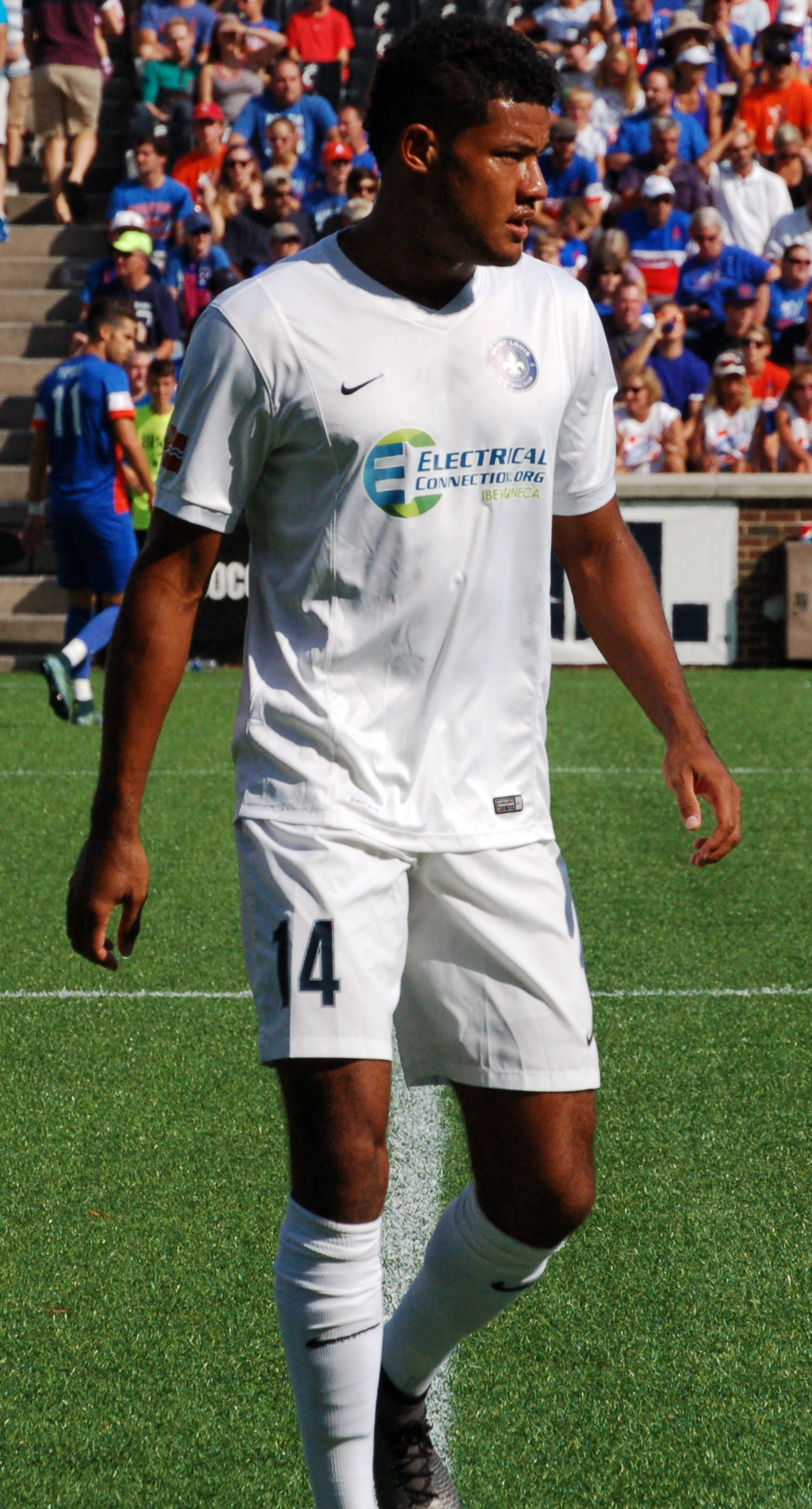 James Musa Taken during a USL regular season match between FC Cincinnati and Saint Louis FC at Nippert Stadium in Cincinnati, USA on September 5, 2016.